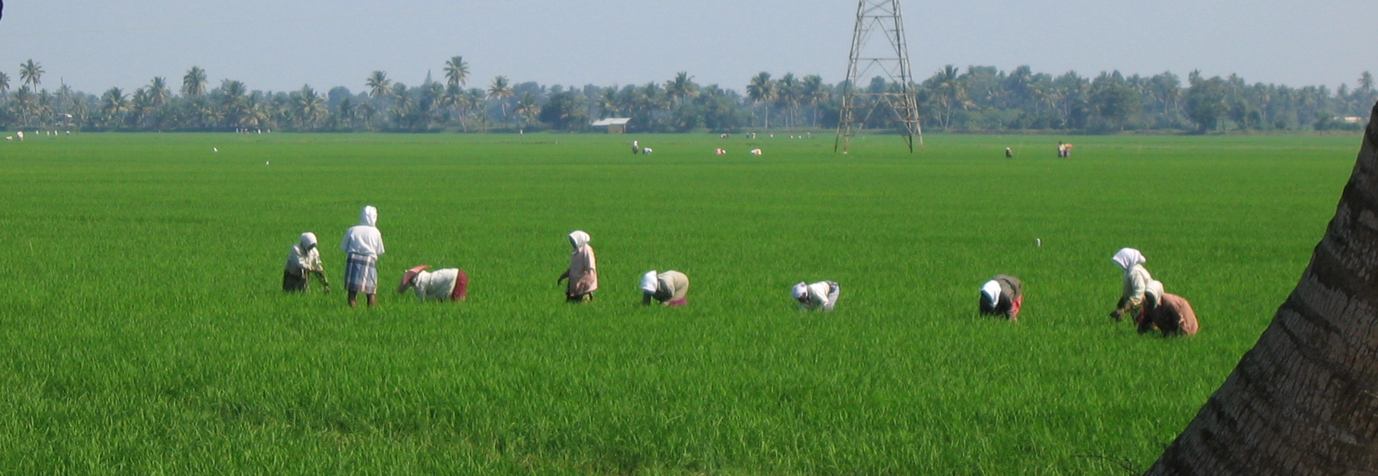 Rice cultivation in India